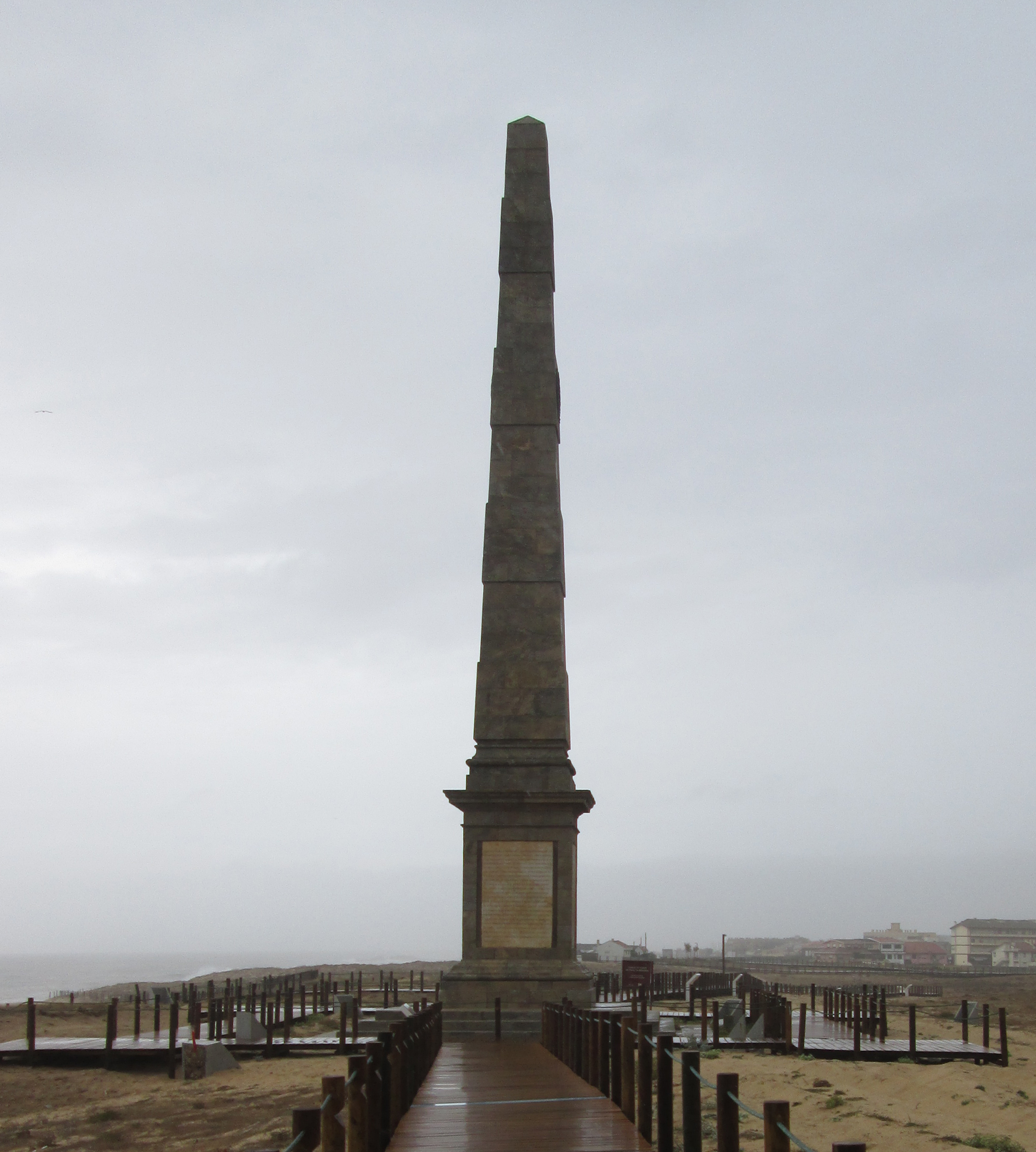 Monument at Pampelido, Portugal to the landing of the liberal forces under Dom Pedro on 8 July 1832.